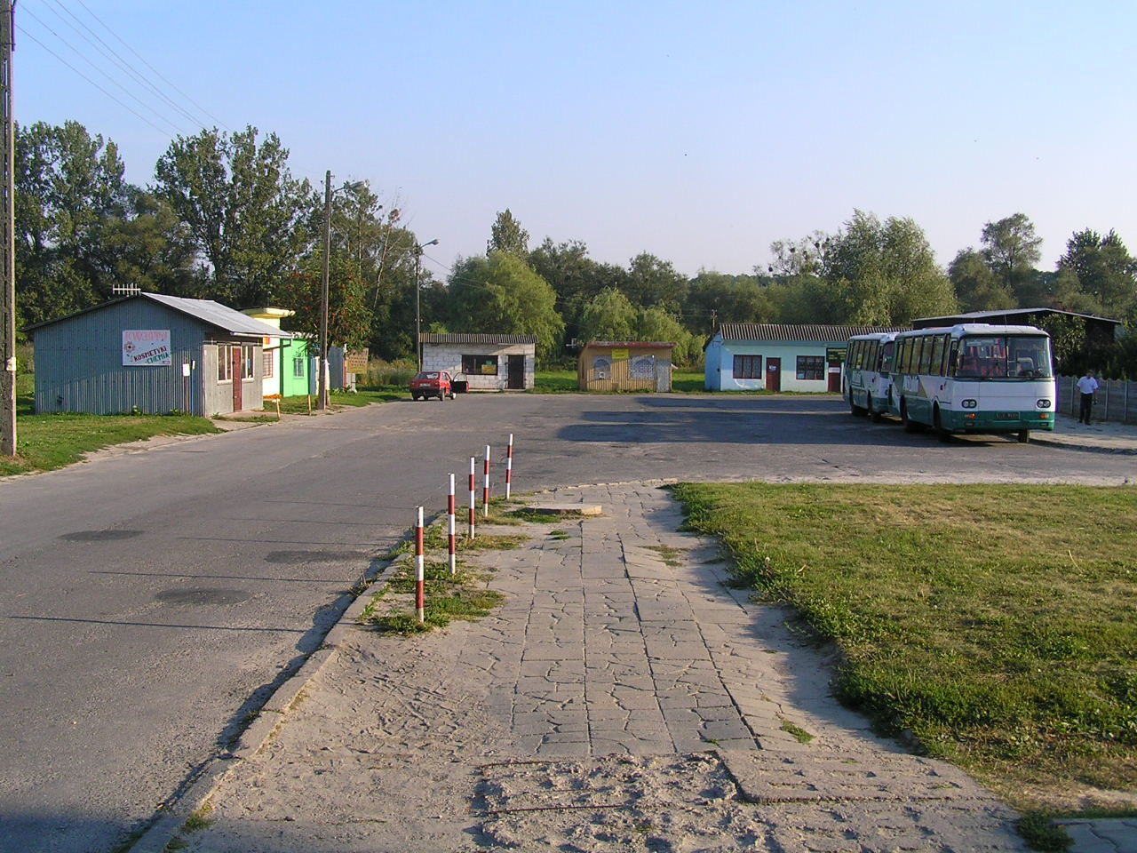 autor: Yarek shalom 08:32, 11 October 2006 (UTC)yarek shalom